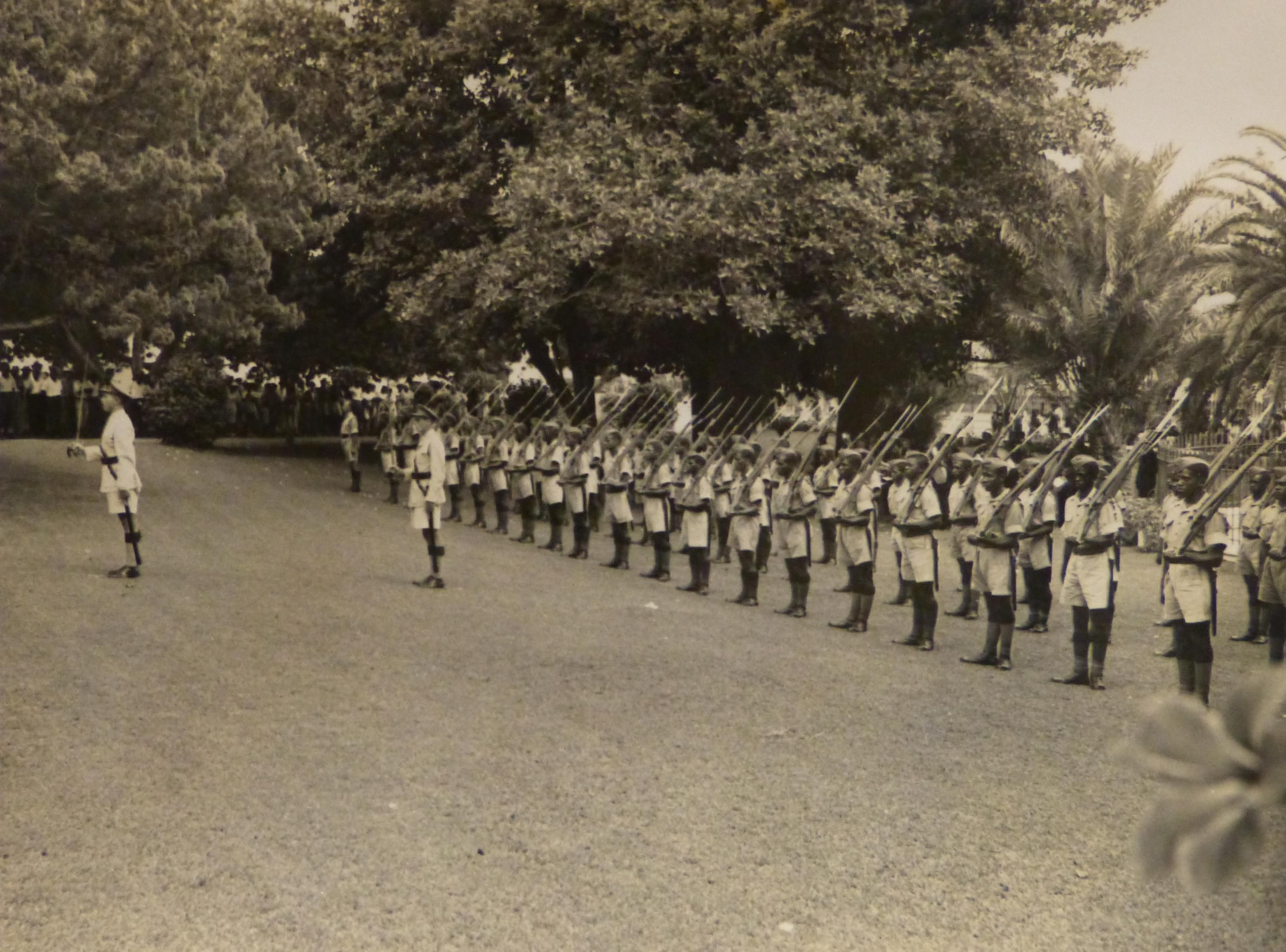 A Guard of Honour from B Company of the Bermuda Militia Infantry parades under Captain R.W. Evans for the opening of the Parliament of Bermuda in the City of Hamilton, Bermuda in 1945 or 1946. This work created by the United Kingdom Government is in the public domain. This is because it is one of the following: It is a photograph taken prior to 1 June 1957; or It was published prior to 1969; or It is an artistic work other than a photograph or engraving (e.g. a painting) which was created prior to 1969. HMSO has declared that the expiry of Crown Copyrights applies worldwide (ref: HMSO Email Reply)More information. See also Copyright and Crown copyright artistic works.